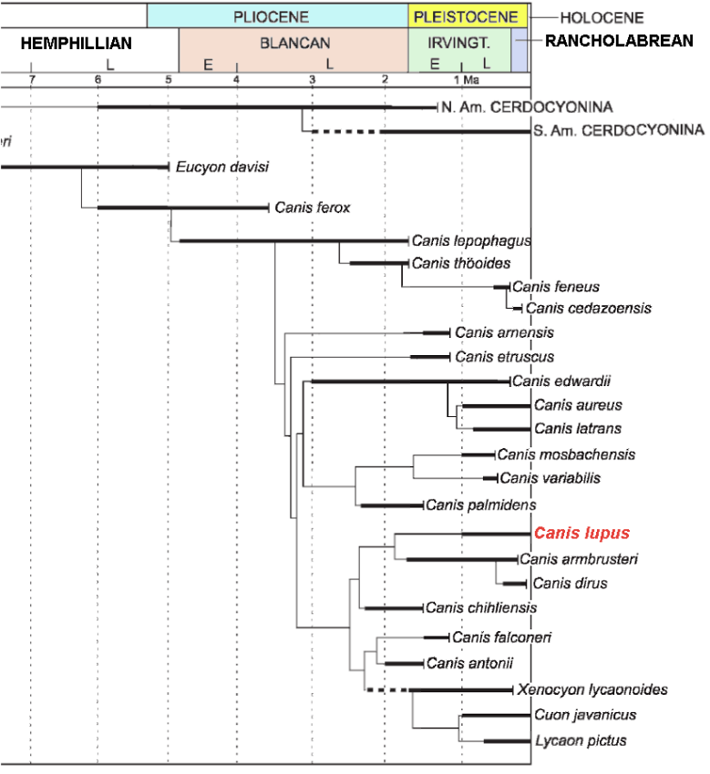 Diagram highlighting existence of Canis lupus